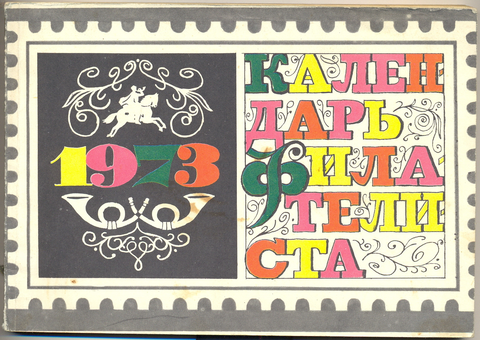 Cover page of Philatelist's Calendar for 1973 (Moscow)